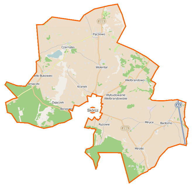 Map of Gmina Skórcz, Poland This map of Skórcz (gmina wiejska) was created from OpenStreetMap project data, collected by the community. This map may be incomplete, and may contain errors. Don't rely solely on it for navigation.